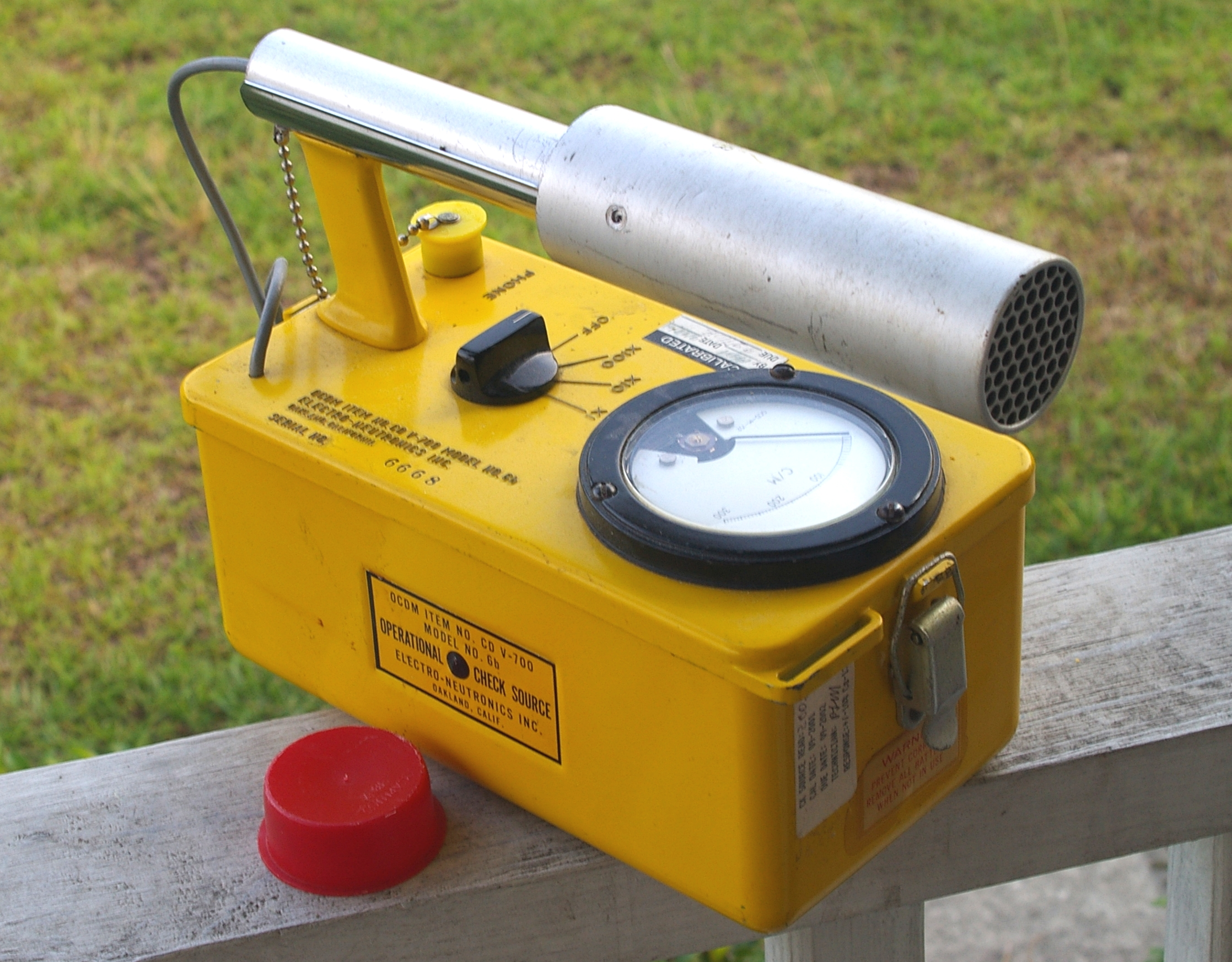 CD V-700 Geiger counter with end-window probe sensitive to alpha radiation. Issued to US state emergency management agencies x6 units per state by FEMA circ. 1970s